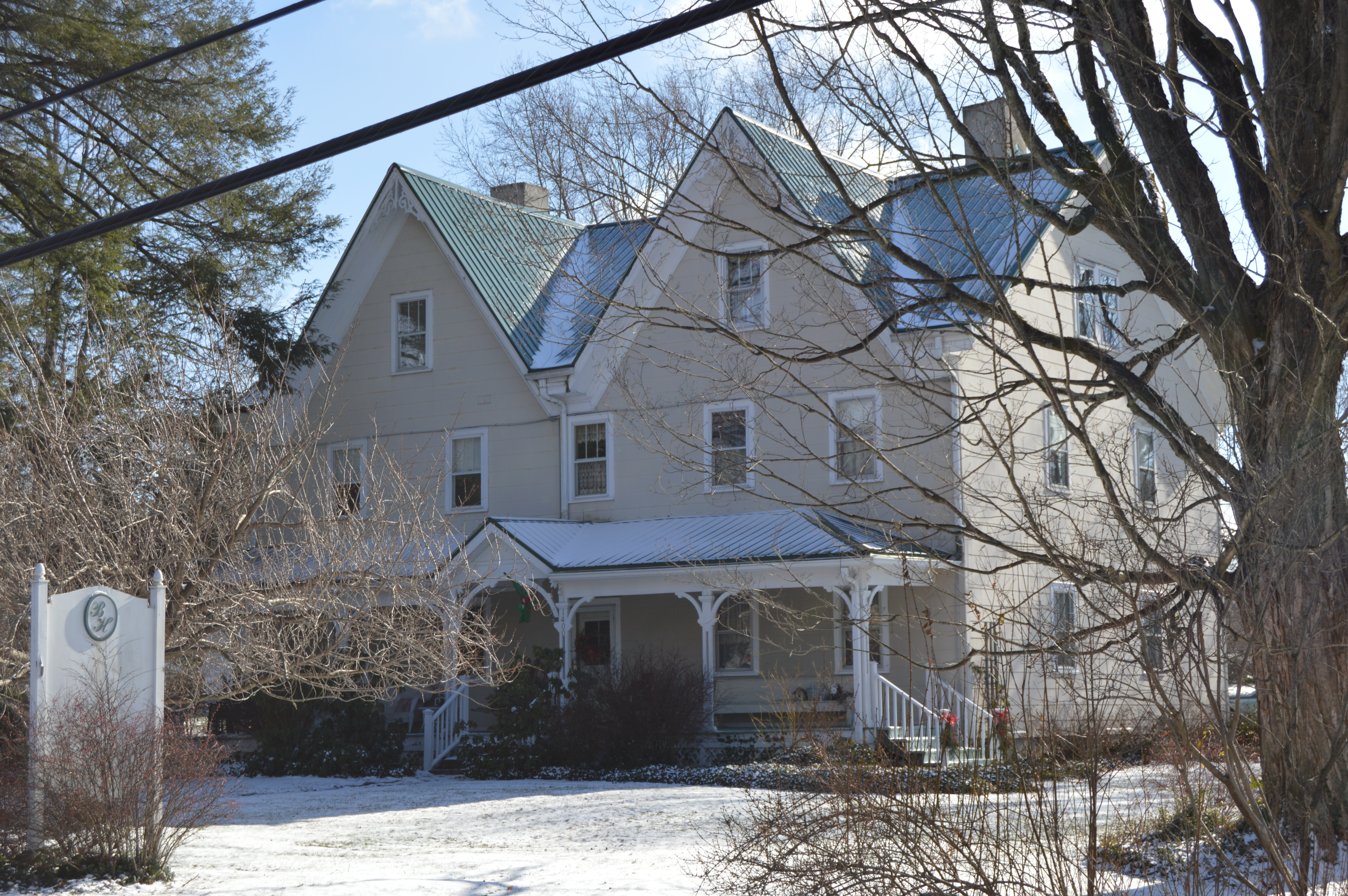 Front and western side of the former Brock Hotel, located at 1400 Webster Road (West Virginia Route 41) in Summersville, West Virginia, United States. Built in 1890, it is listed on the National Register of Historic Places.